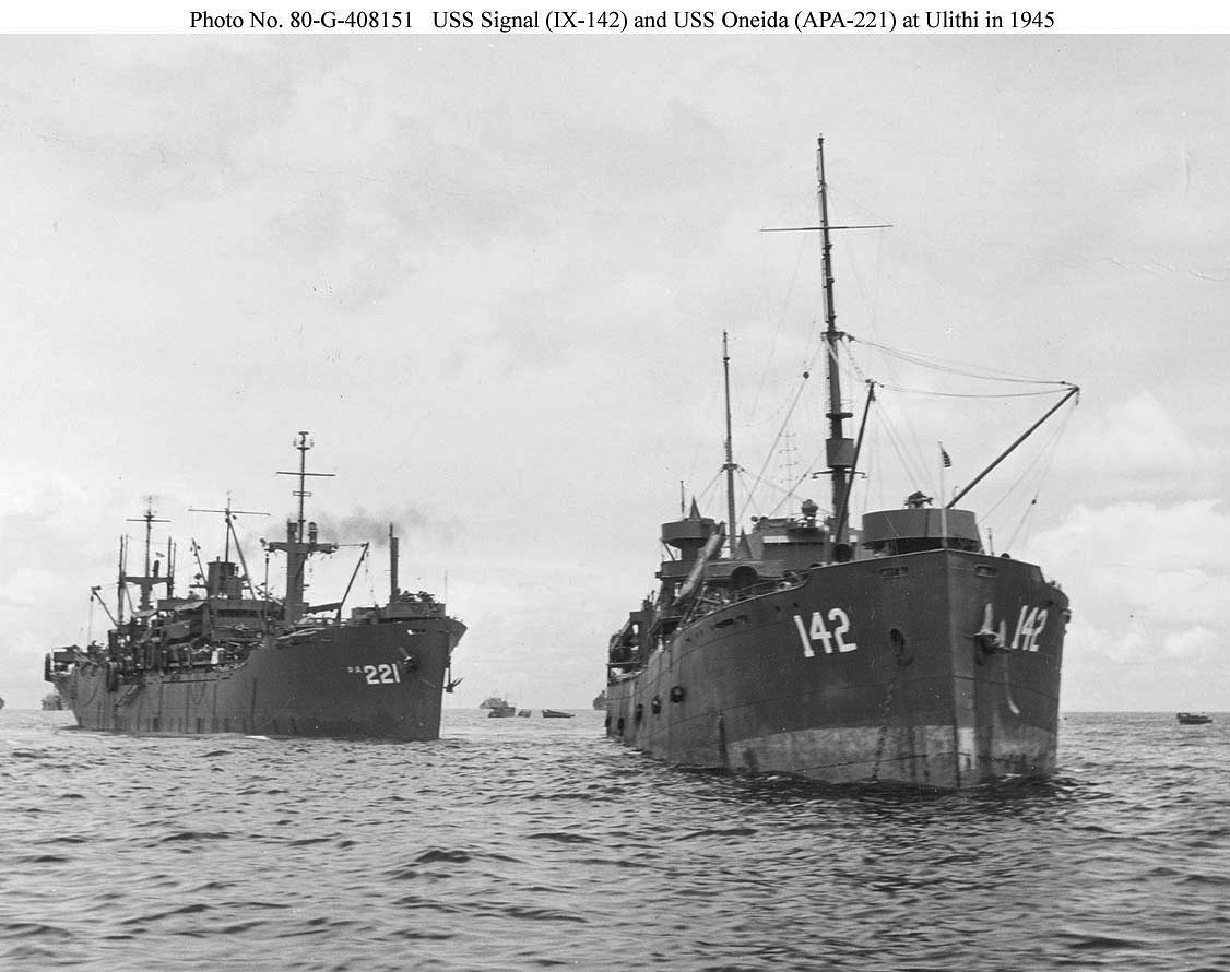 USS Oneida (APA-221) approaching the station tanker USS Signal (IX-142) for refueling at Ulithi during one of three periods that Oneida was in the anchorage, 23 February to 30 March, 12 to 23 May or 5 to 18 August 1945.